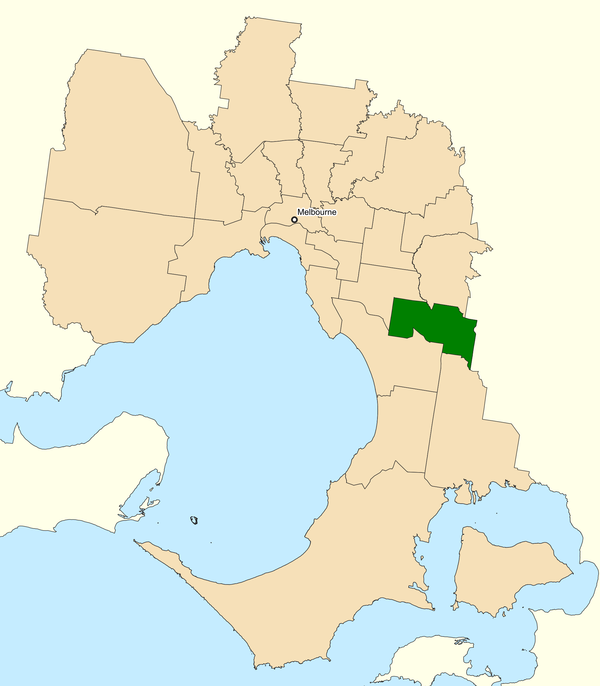 Location of the Australian federal electoral division of Bruce (dark green) in Greater Melbourne, Victoria as of the 2019 Australian federal election. Incorporates or developed using Administrative Boundaries ©PSMA Australia Limited licensed by the Commonwealth of Australia under Creative Commons Attribution 4.0 International licence (CC BY 4.0).